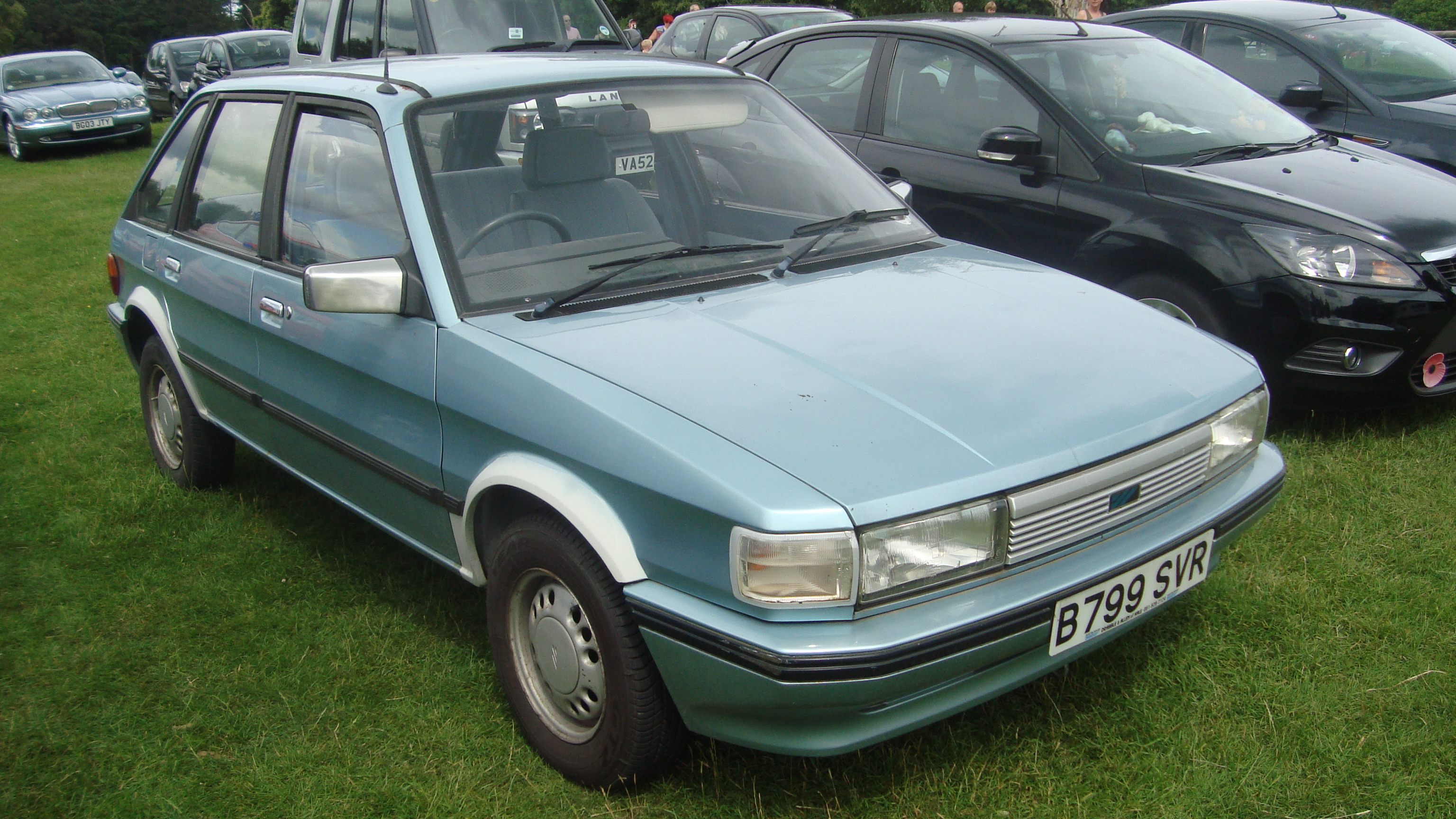 It was lovely to see this, I always pay a visit to the car parks after leaving the show as it's always full of rare and interesting cars